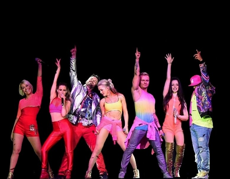 S Club 7 at O2 Arena